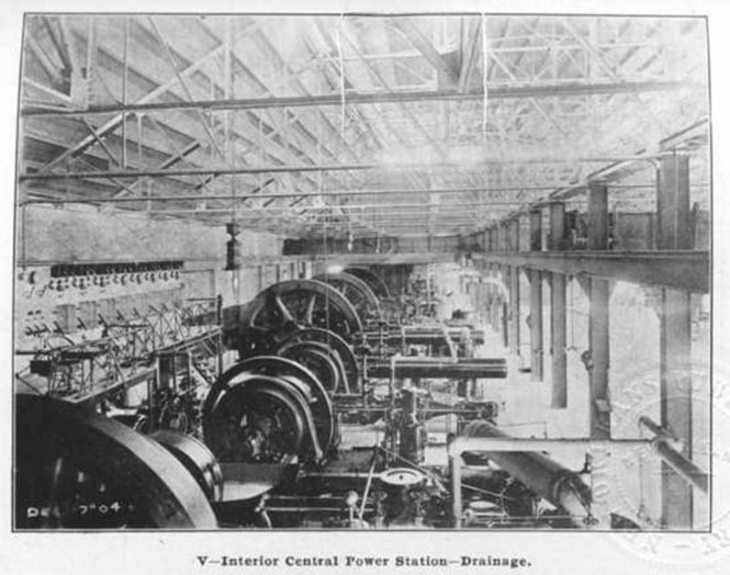 New Orleans, 1904. "Interior Central Power Station - Drainage". Engines for powering drainage pumps. 6 engines, ranging from 100 to 1,000 horsepower.